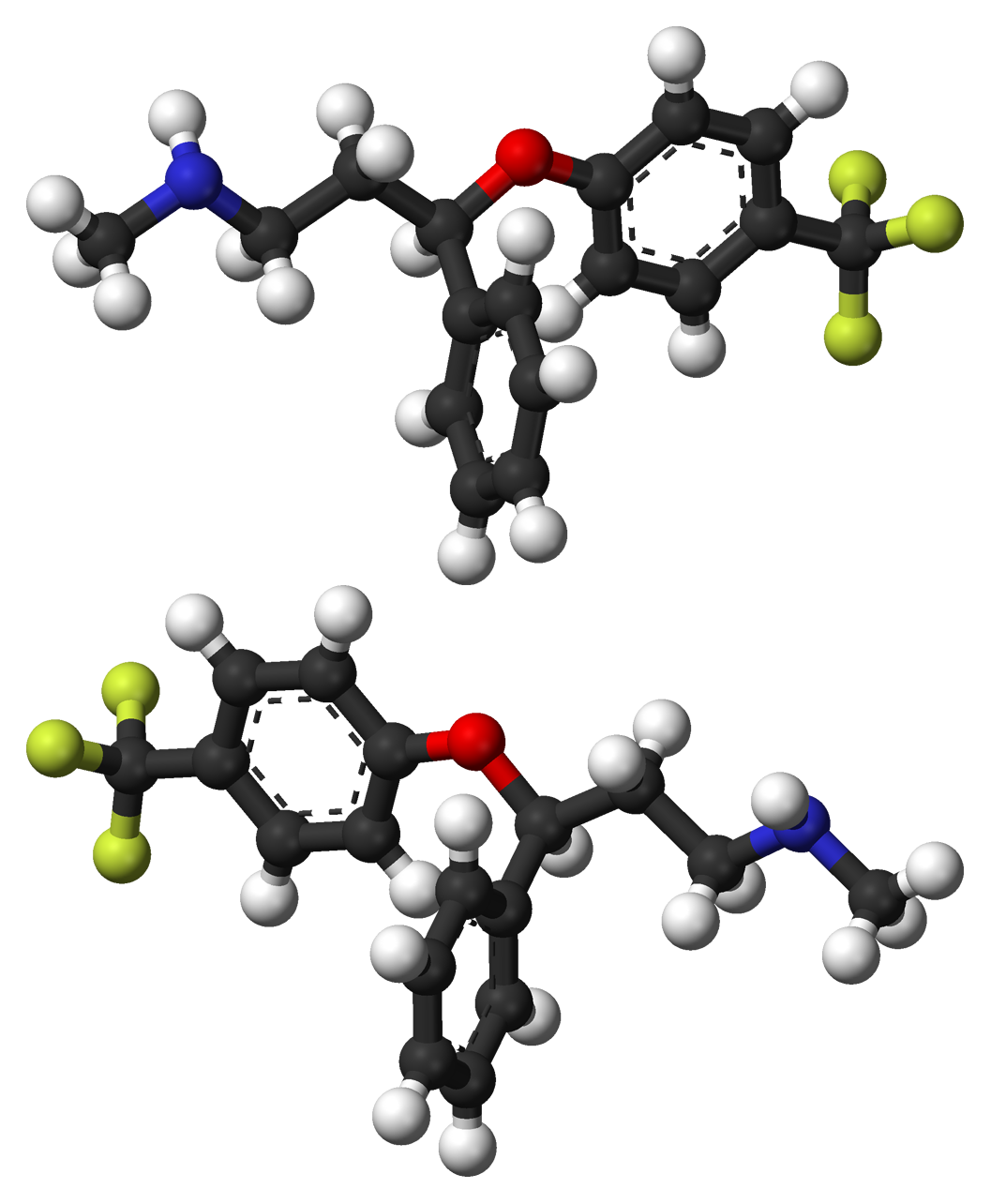 Ball-and-stick models of (R)-fluoxetine (top) and (S)-fluoxetine (bottom). Created with Adobe Illustrator CC 2015. Colors used: Carbon, C: dark grey Hydrogen, H: light grey Nitrogen, N: blue Oxygen, O: red Fluorine, F: light green